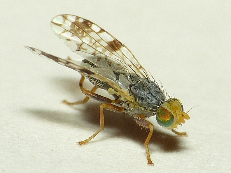 Tephritis angustipennis, location: The Netherlands - Wageningen - Plasserwaard